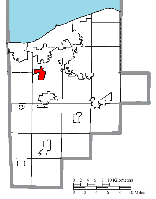 Map of the municipal and township boundaries of Lorain County, Ohio, United States, as of the 2000 census, with the location of the village of South Amherst highlighted. Township borders are shown only in unincorporated areas in order to differentiate incorporated and unincorporated areas more clearly.